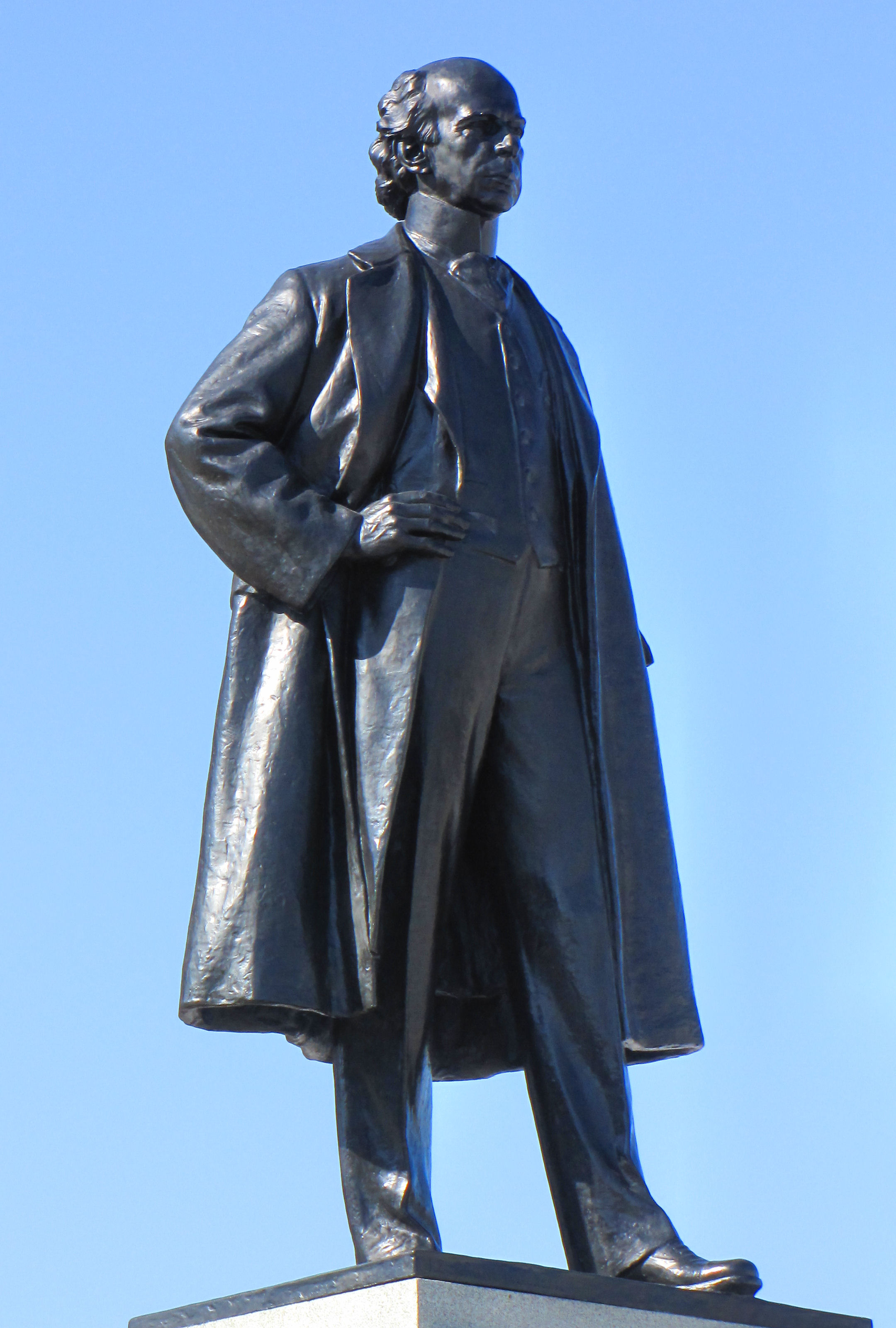 Sir Wilfrid Laurier statue, Parliament Hill, Ottawa, Ontario, Canada